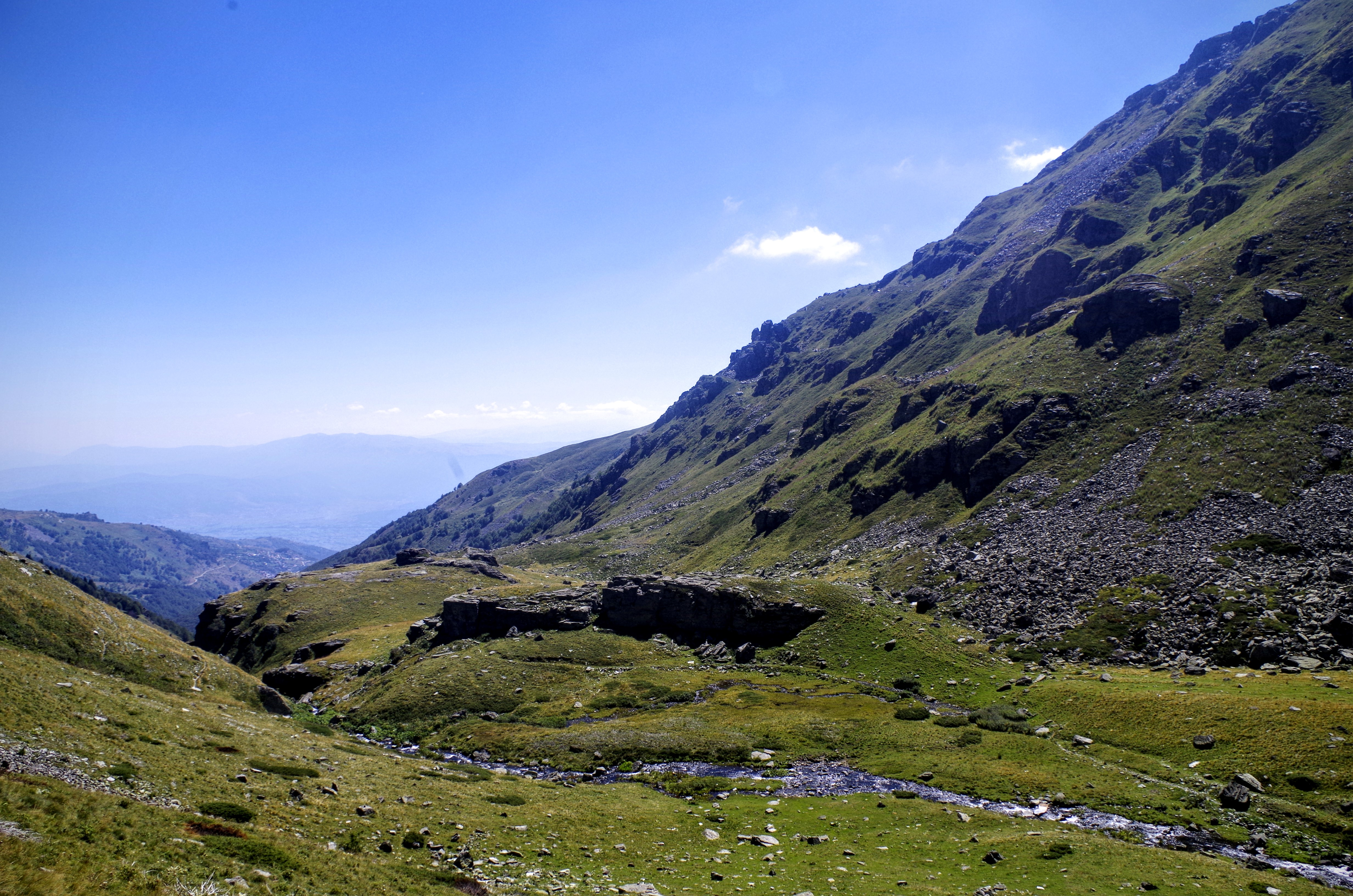 Bogovinje River on Shar Mountain, Macedonia